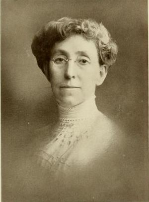 Frances Porcher, Kajiwara Photo, Johnson, Anne (André) "Mrs. Charles P. Johnson", 1871-. Notable women of St. Louis, 1914; (Kindle Location 4402). [St. Louis, Woodward.]